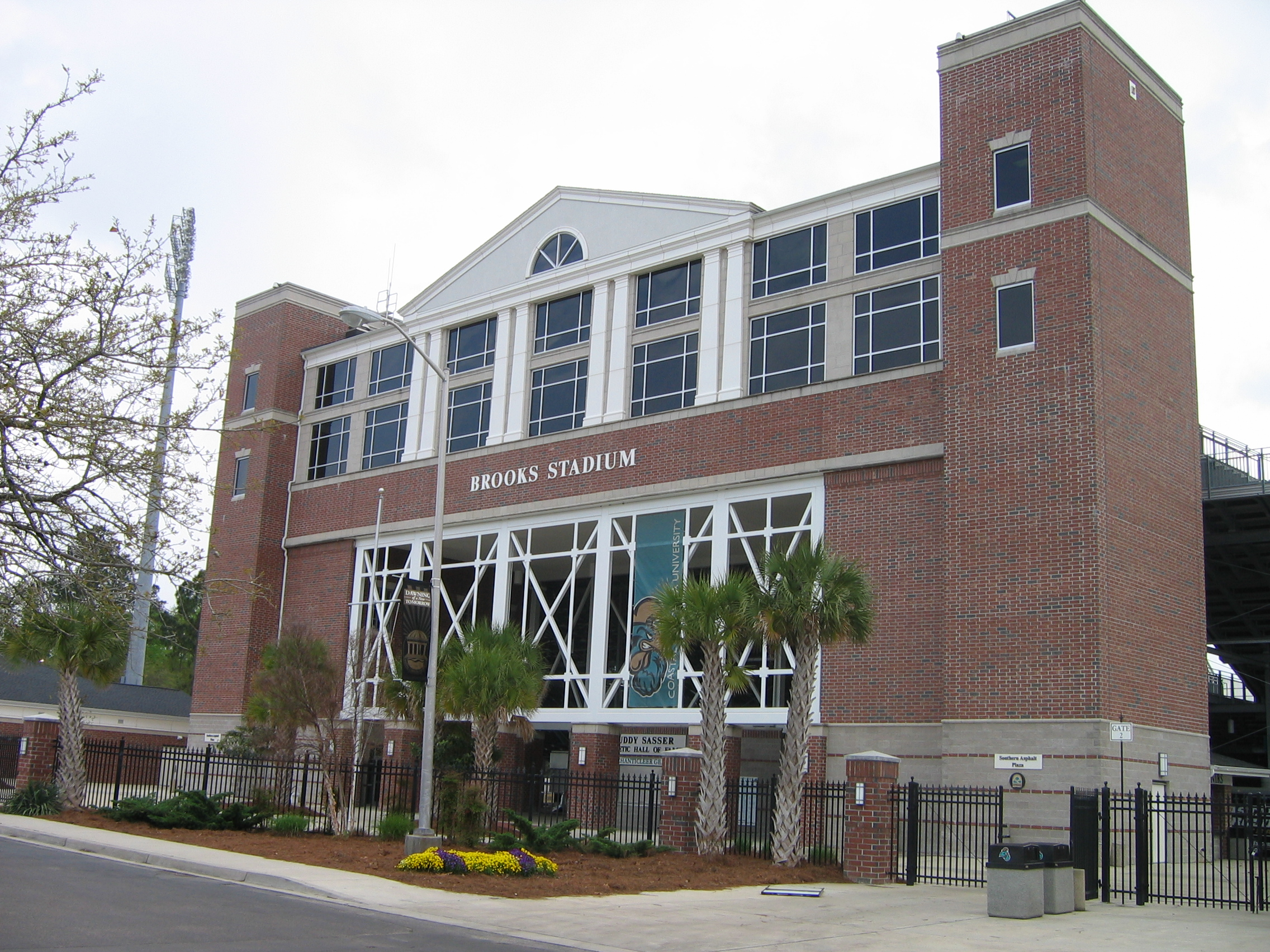 Football & Basketball Facilities Coastal Carolina Football Stadim